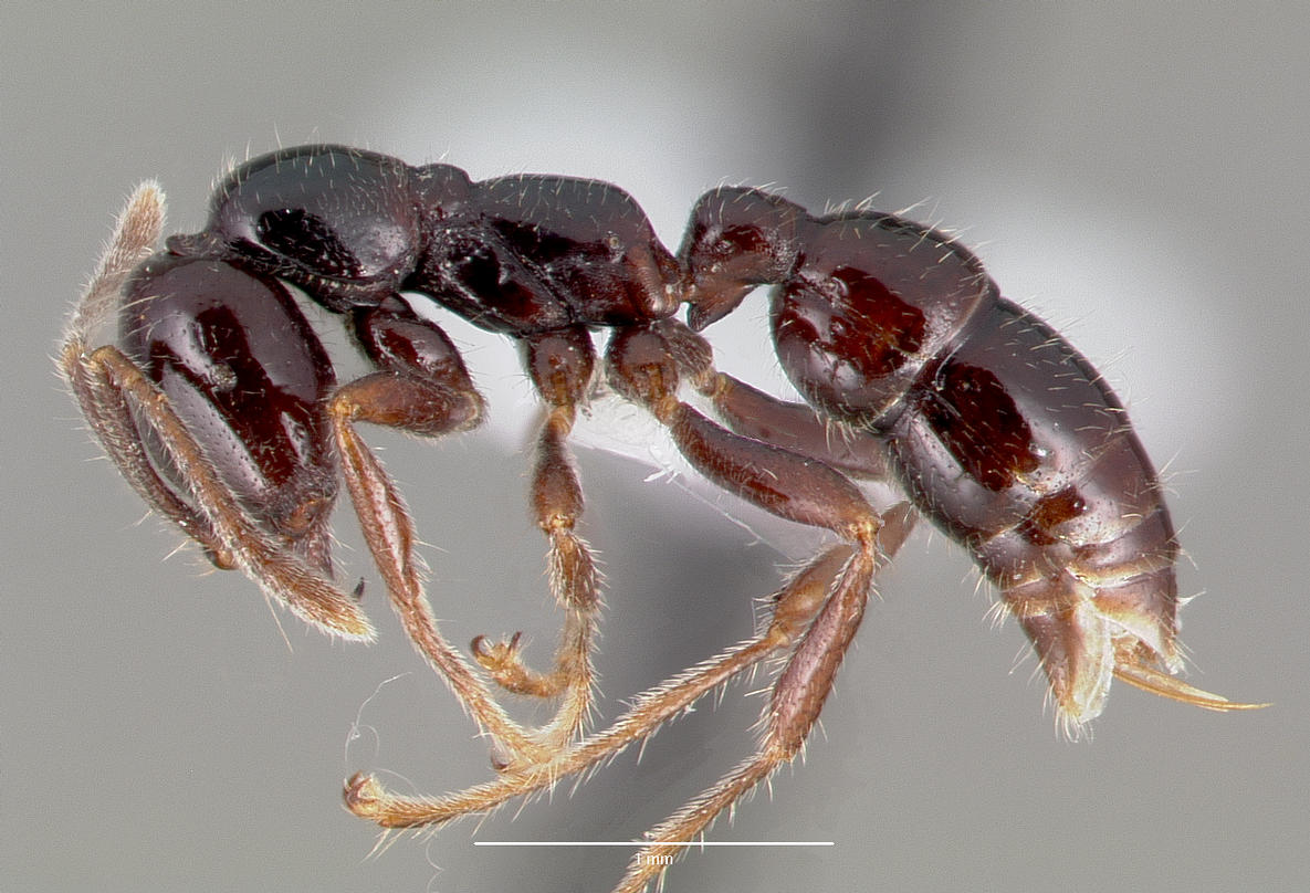 Profile view of ant Onychomyrmex hedleyi specimen casent0003164.